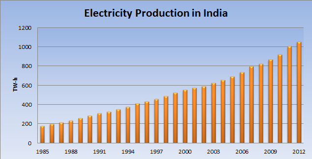 Reference: The Statistical Review of World Energy 2013 [1] Graph created in Excel